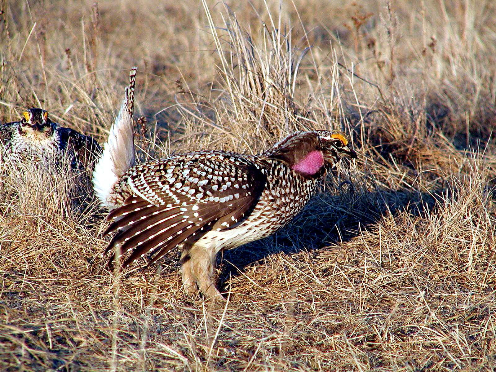 Credit: Rick Bohn